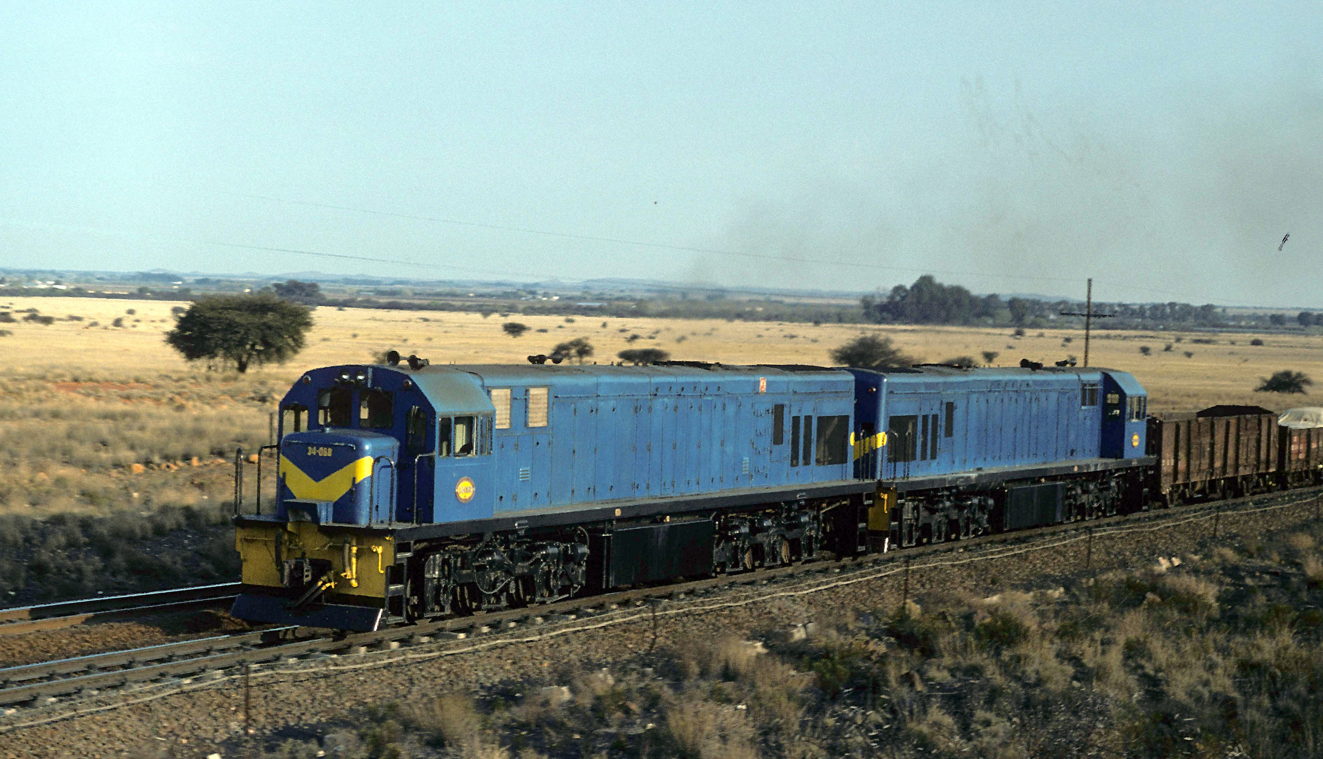 South African Class 34-000 34-058 (& 34-059)Builder's Number: GE 37867 Type: GE U26CLocation: Modderrivier, Cape Province